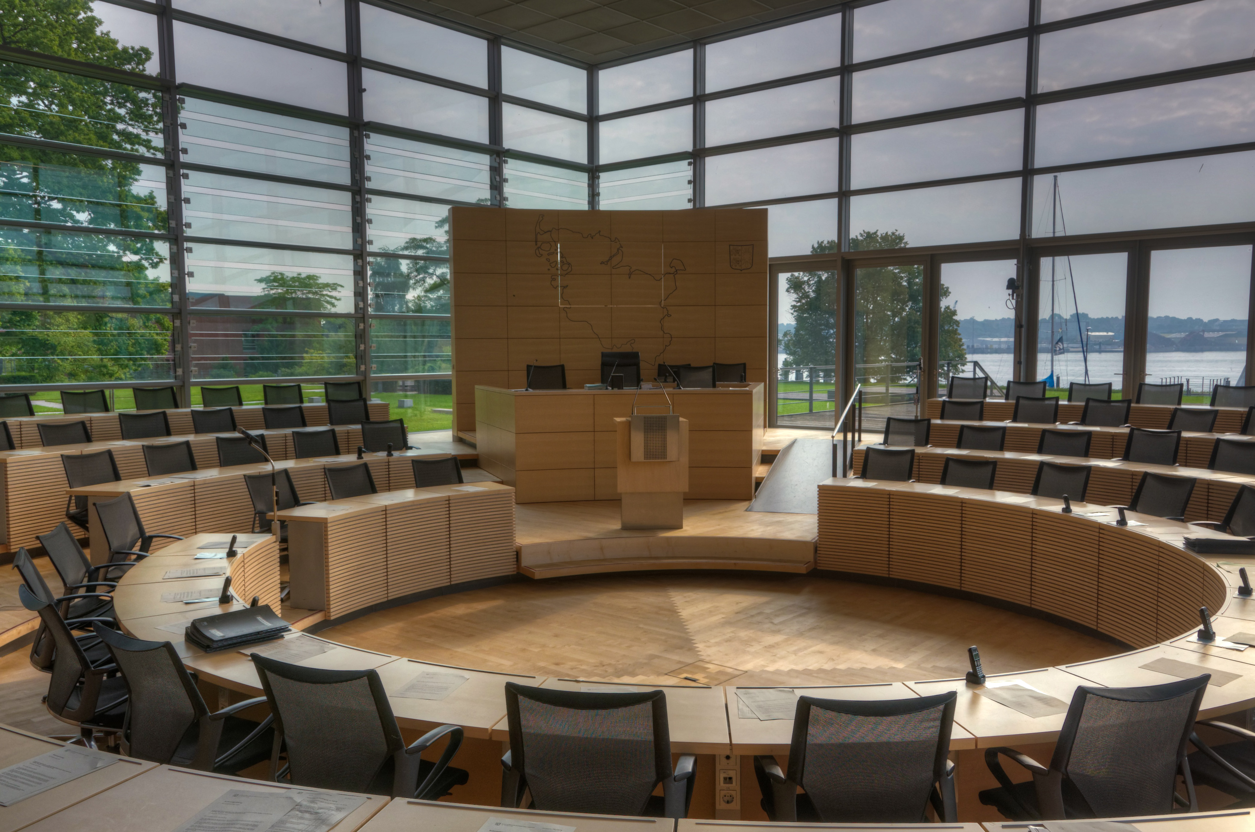 Schleswig-Holstein Parliament in Kiel, Germany.